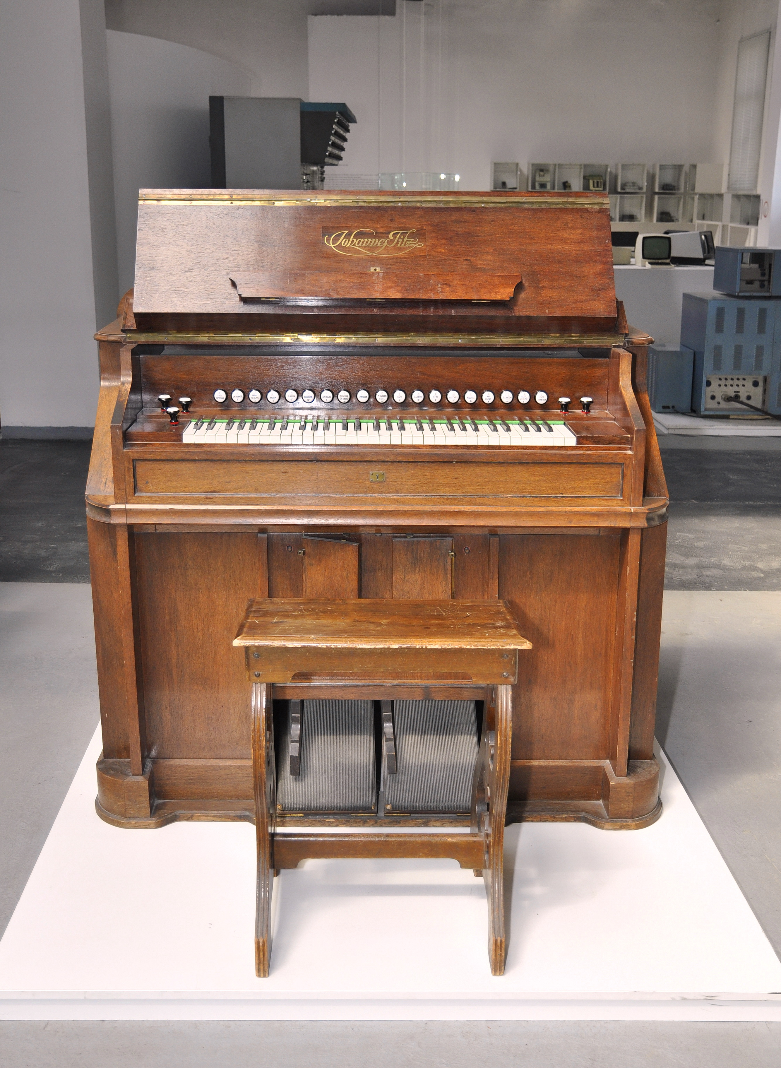 Pump organ located in Museum of Science and Technology Belgrade.